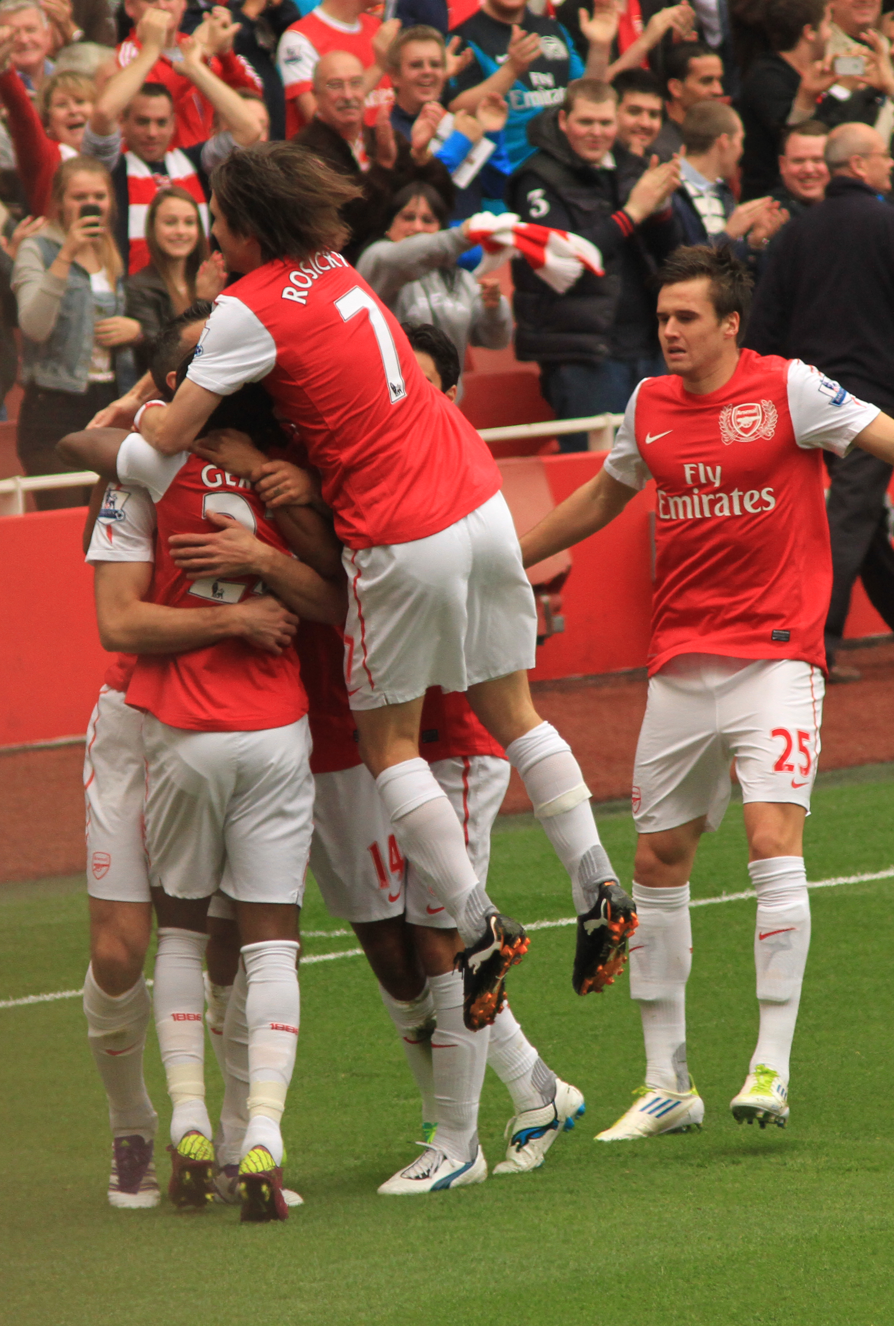 Van Persie Goal Celebrations 10